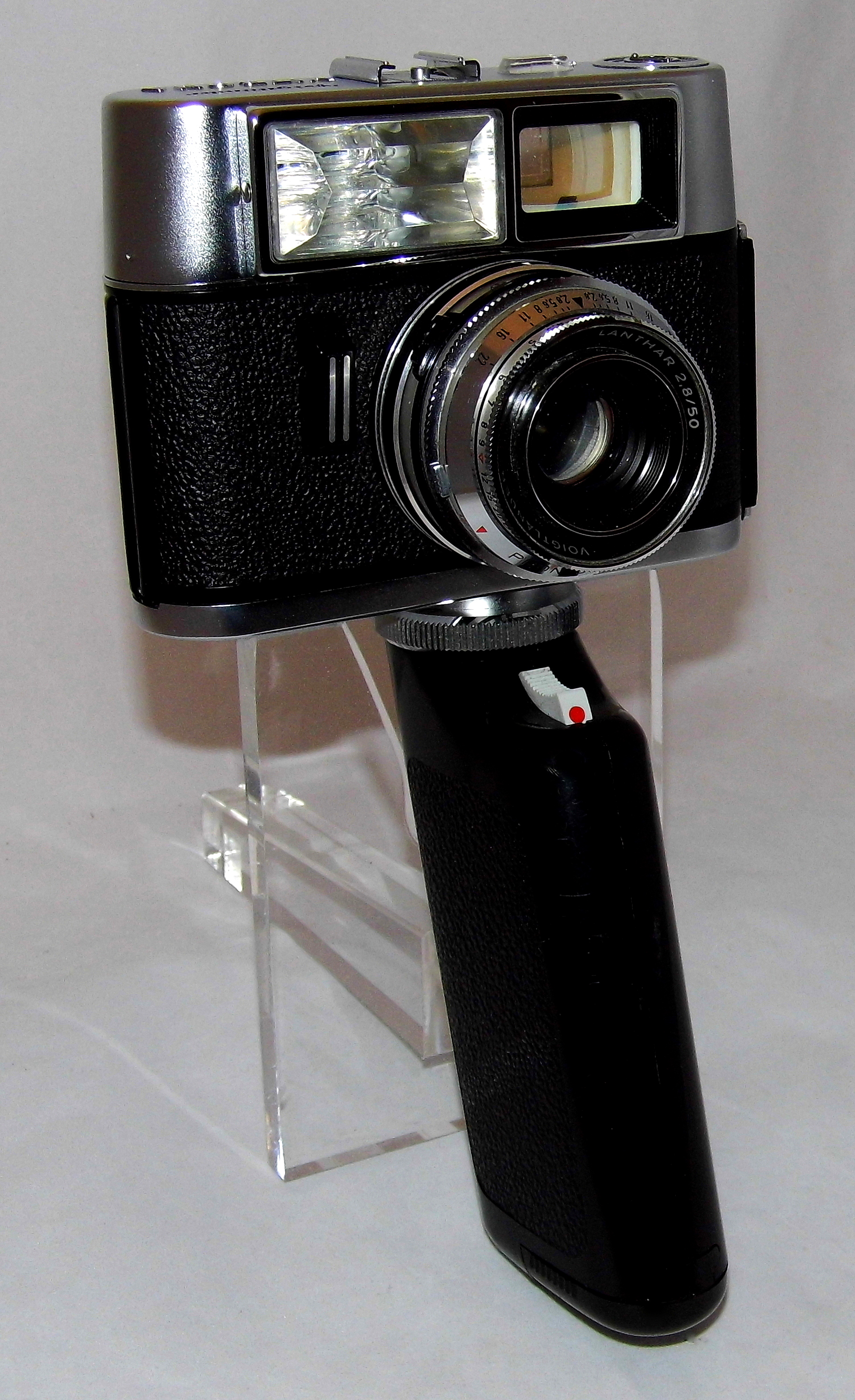 The batteries and part of the electronics for the flash are housed in the hand grip.